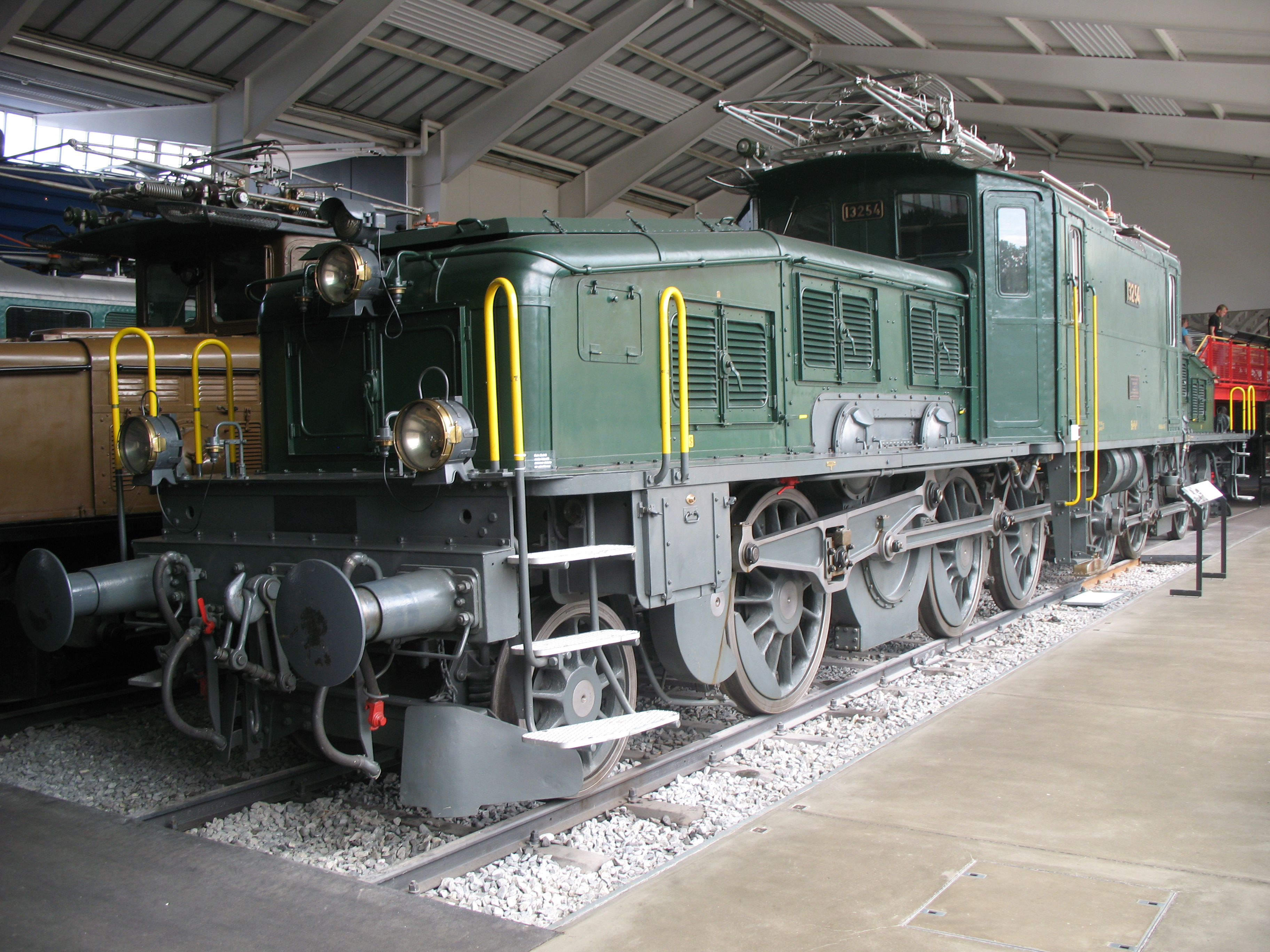 SBB-CFF-FFS Be 6/8 in the Swiss Transport Museum, Luzern, Switzerland